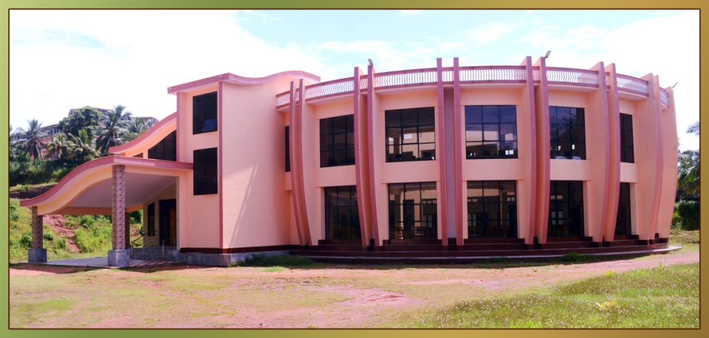 This is a library run by Sri Sathya Sai Loka Seva trust